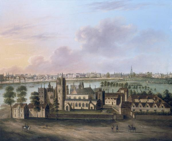 The view is to the north and many of the riverside buildings off of Whitehall and the Strand may be seen.